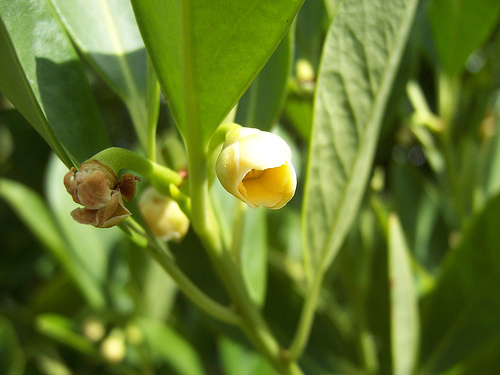 Illicium parviflorum/yellow anise flower